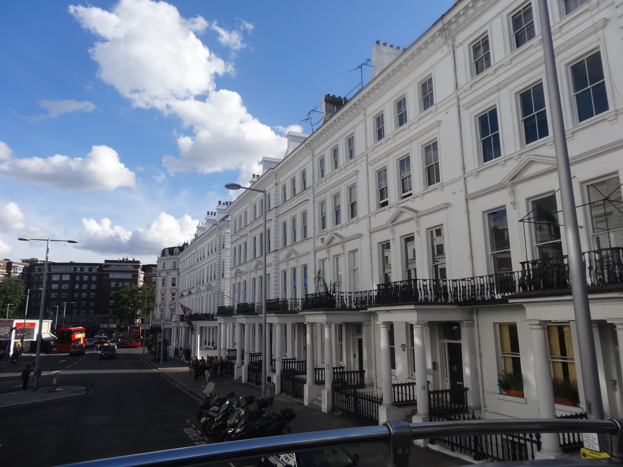 Institut Français Du Royaume Uni